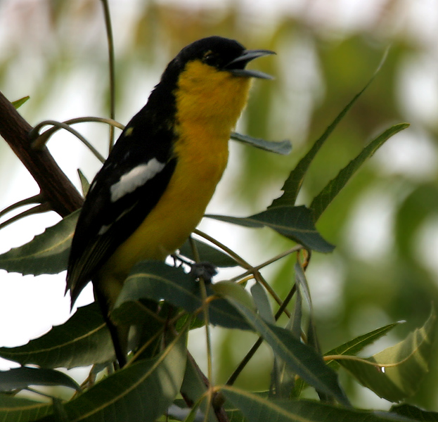 Common Iora Aegithina tiphia in Hyderabad, India.